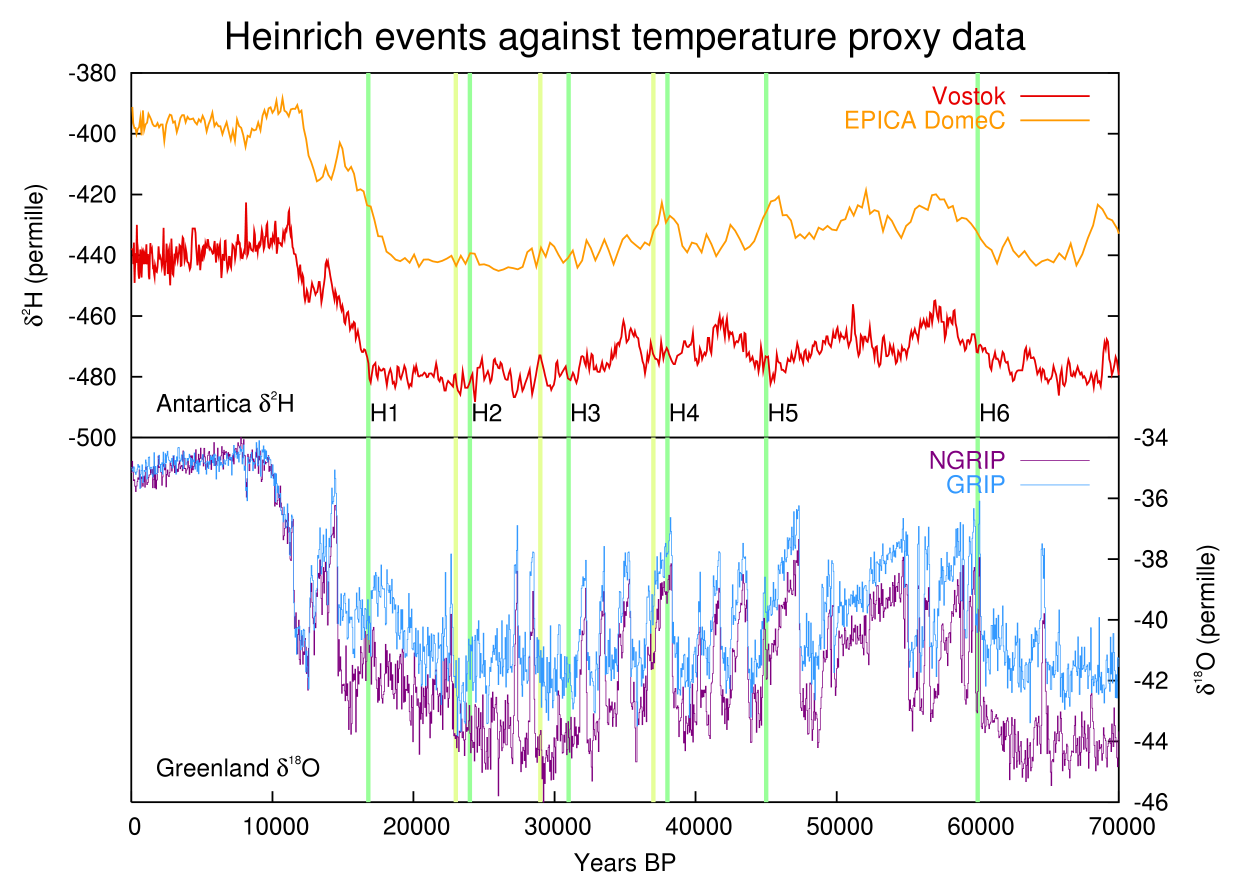 Heinrich events, denoted by vertical green bars, plotted against temperature proxy data from Antarctic and Greenland ice cores. Dansgaard-Oeschger events can be seen most clearly in the Greenland delta 18O data. Darker green bars represent the Heinrich events from Hemming 2004, while the lighter green represents alternative dates for events 2 through 4 from Bond [1].